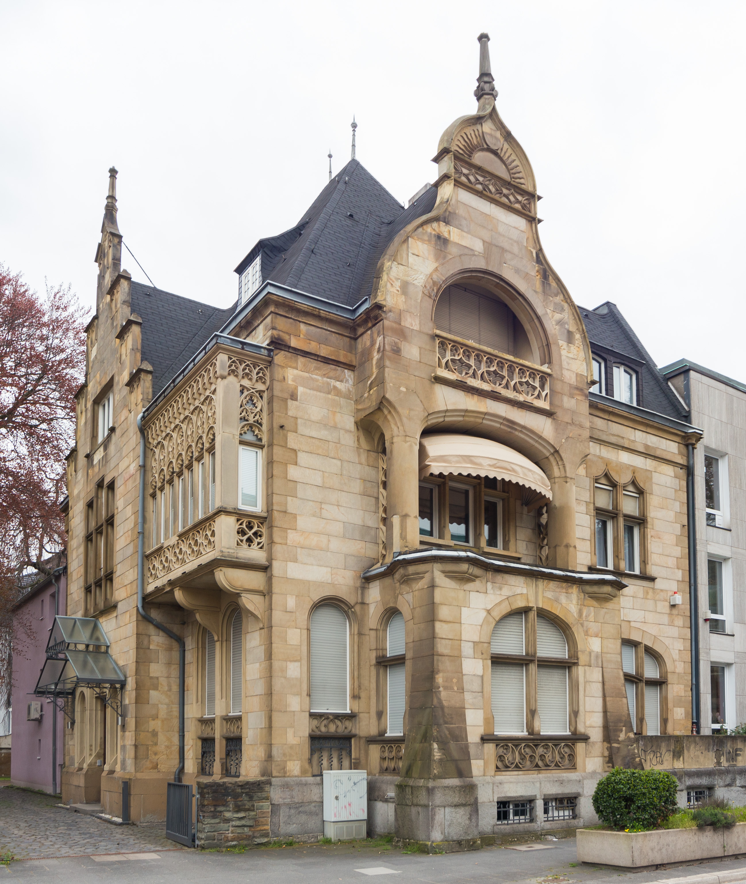 Heritage protected building “Villa Ermekeil”, Adenauerallee 131, Bonn-Gronau: view from west